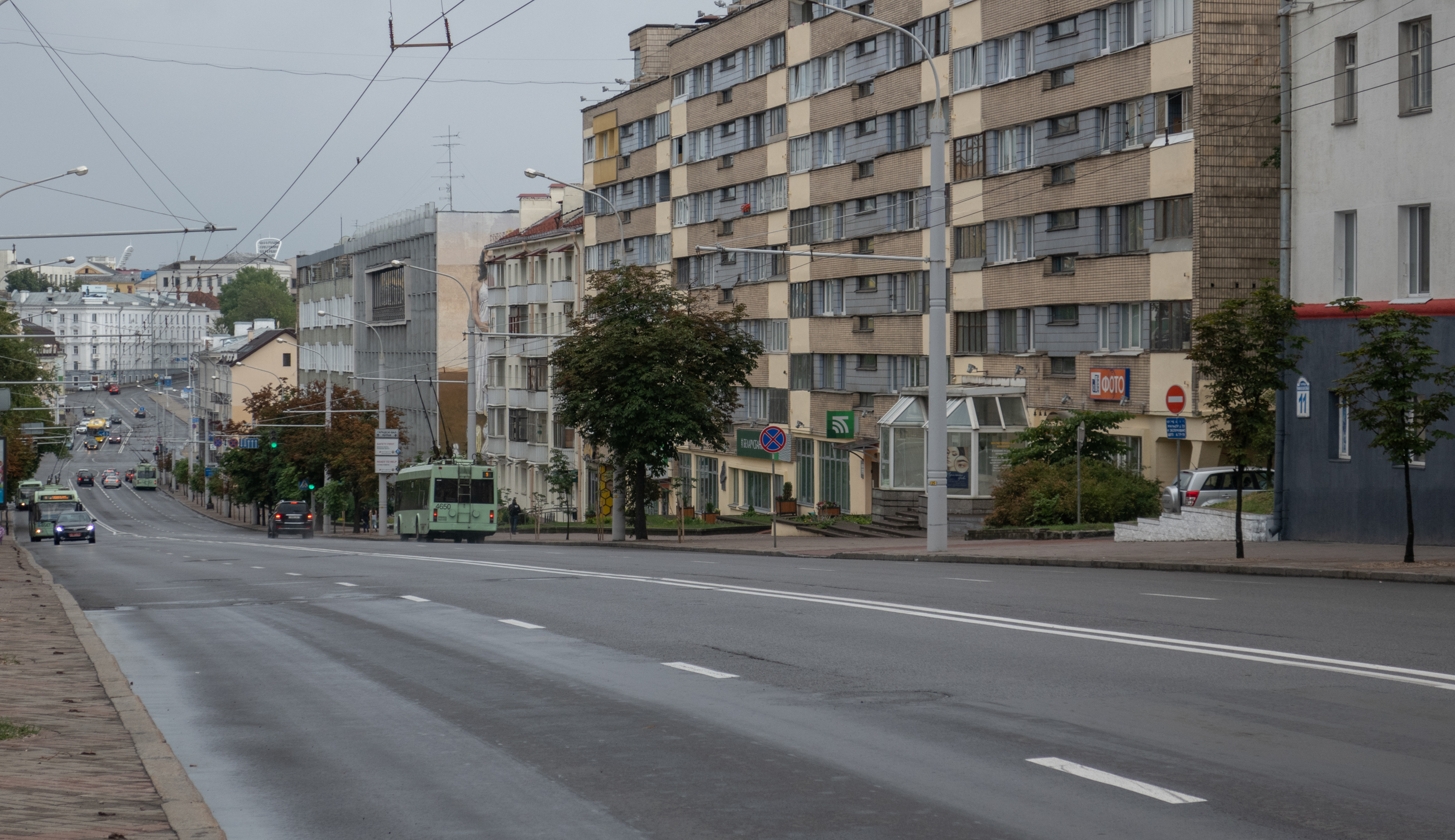 Ramanaŭskaja Slabada street (Minsk, Belarus)